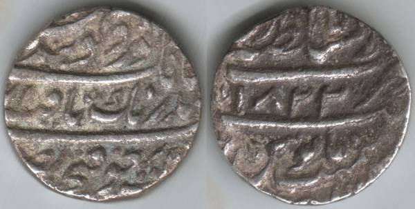 First coin issued by the Sikh Bhangi Misl